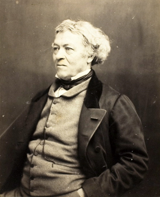 Jean-Baptiste-Camille Corot